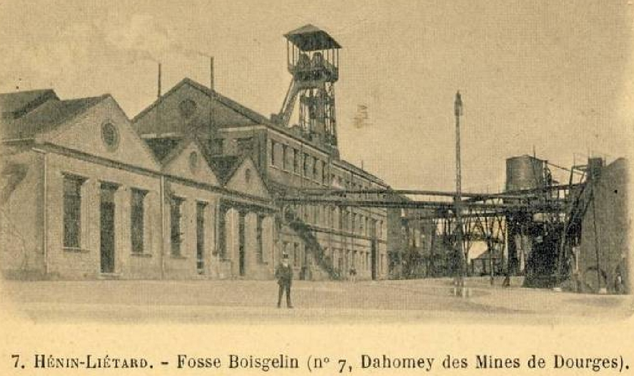 Compagnie des mines de Dourges, Pas-de-Calais, France.